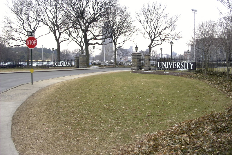 Main entrance to Fordham University (Rose Hill, Bronx, NYC)